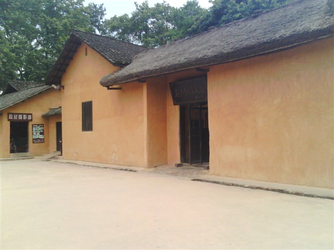 Liu Shaoqi's former residence,,Located in HuaMinglou Town, Ningxiang County, Changsha City, Hunan Province, beautiful , a well-known tourist resorts .